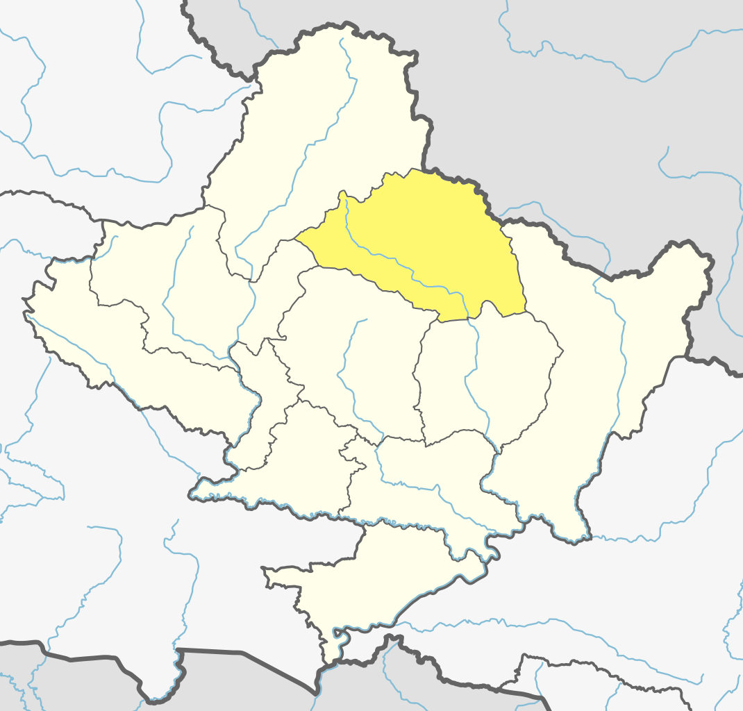 Manang District